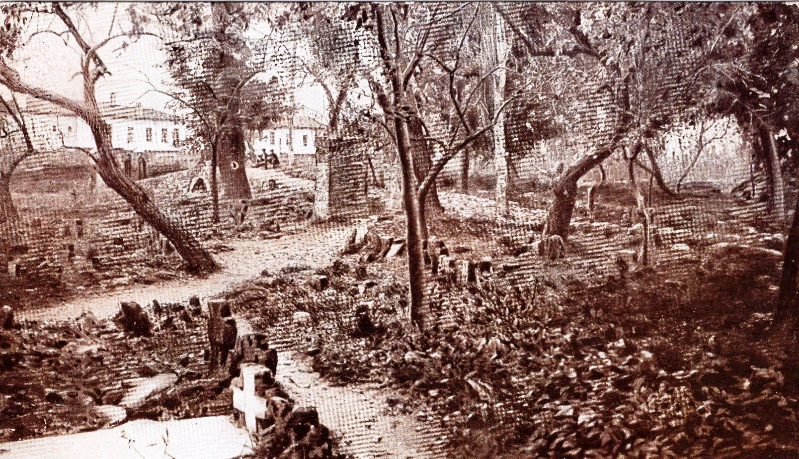 Graveyards in Voden (Edessa). This media file is produced by Wikipedian in Residence in Category:Wikipedian in Residence at DARM in 2017.